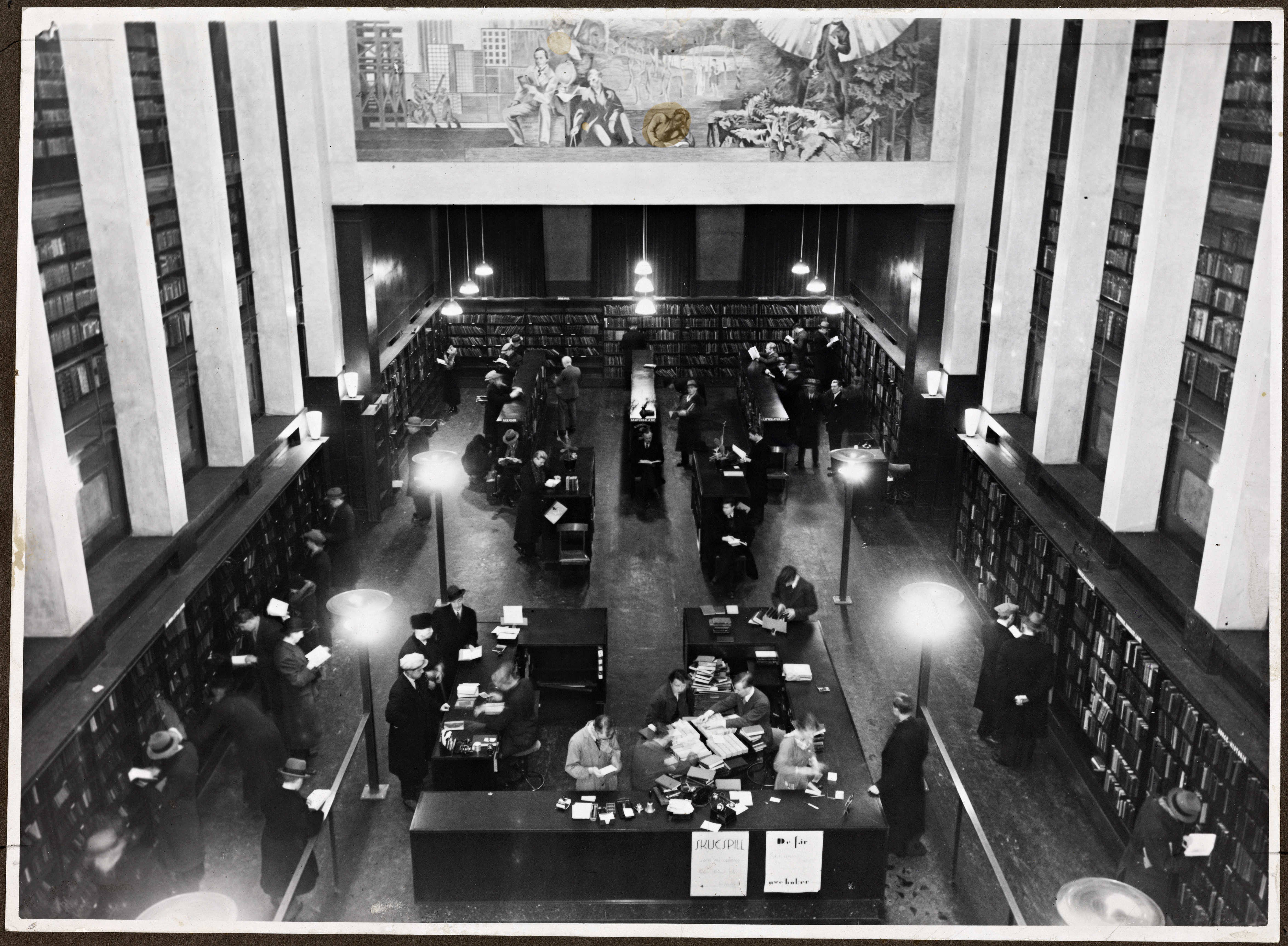 Beskrivelse / Description: Bildet stammer fra arkivet etter Statens bibliotektilsyn. Dato / Date: ukjent / unknown Sted / Place: Oslo, Deichmanske bibliotek Fotograf / Photographer: ukjent / unknown Digital kopi av original / Digital copy of original: s/h papirpositiv Eier / Owner Institution: Nasjonalbiblioteket / National Library of Norway Lenke / Link: Bildesignatur / Image Number: bldsa_K48-002